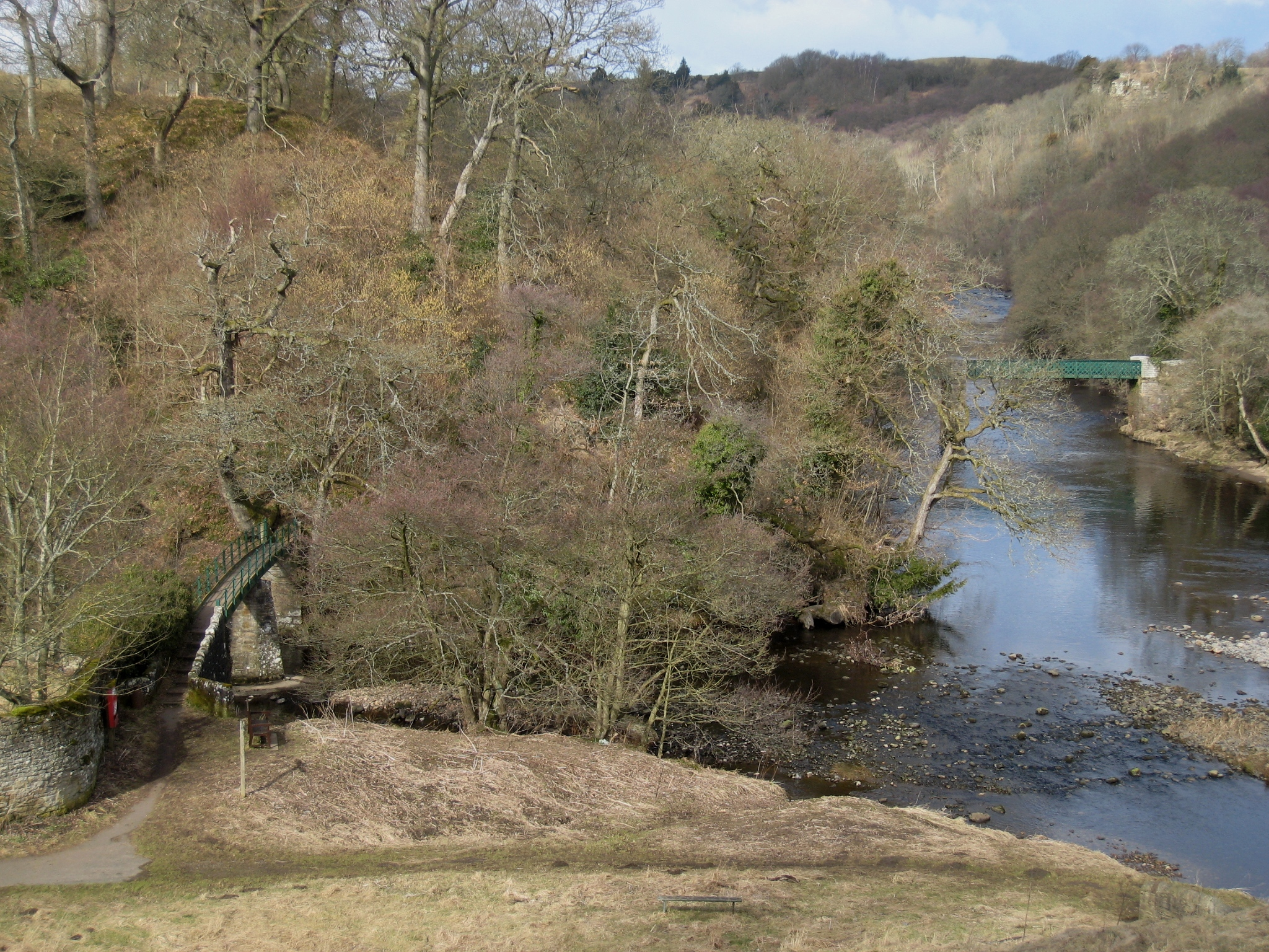 Two rivers and two bridges This photograph shows a view of the bridge over the River Tees (on the right) and the bridge over the River Balder (on the left). The picture was taken from the Teesdale Way long-distance footpath looking in a northerly direction towards Shipley Wood.